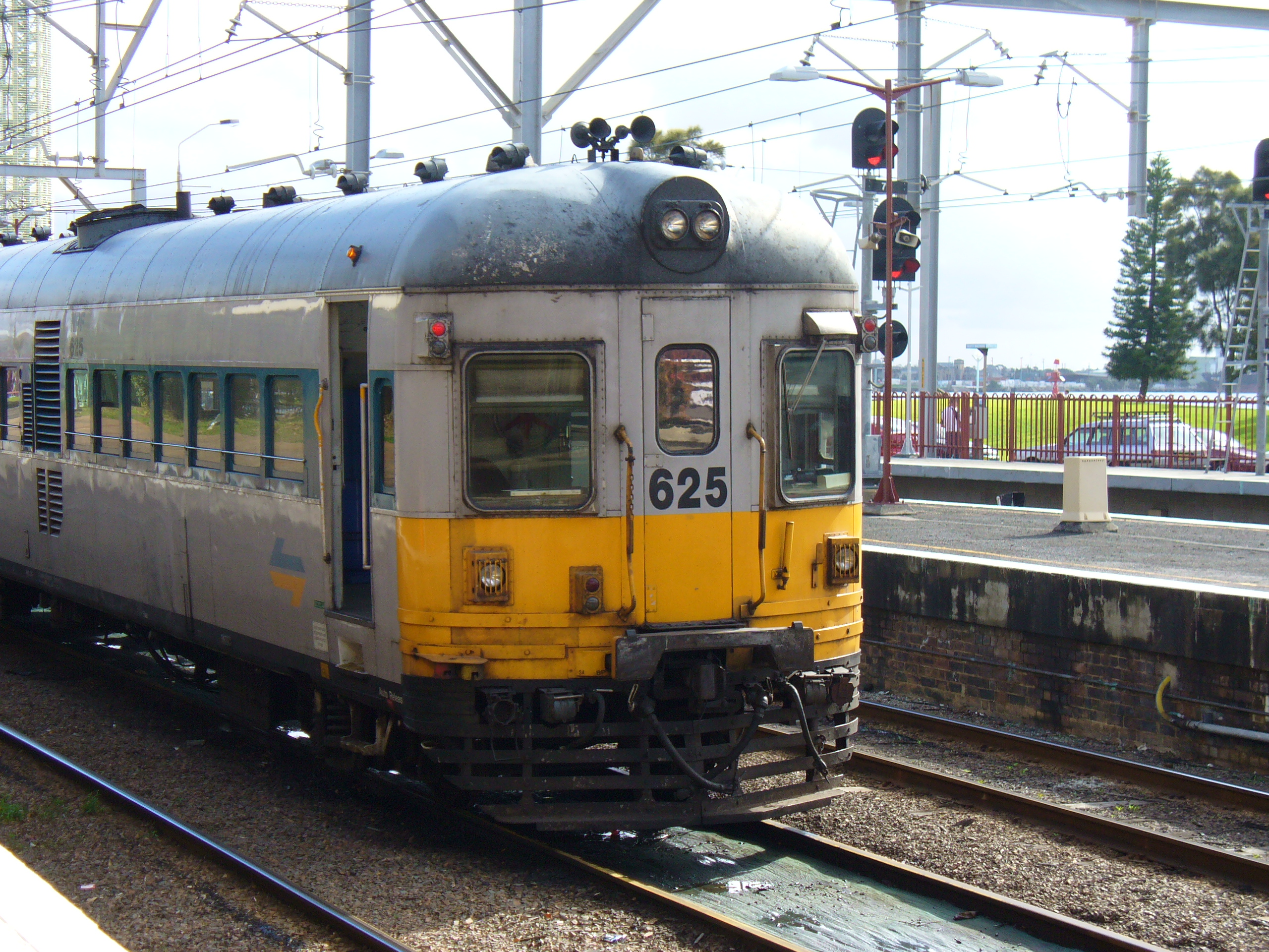 Railcar set 625/725 sits in the engine runaround siding at Newcastle Station